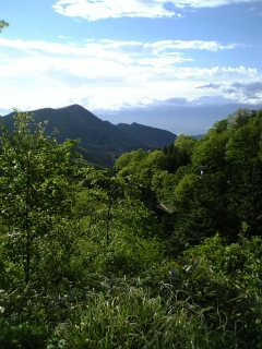 sasaga touge